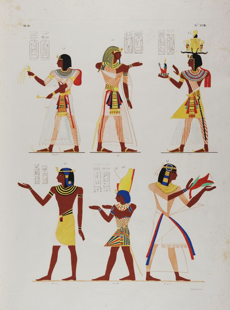 Plate from "Monumenti dell'Egitto e della Nubia", a work published in Pisa, Italy, containing hieroglyphics and reliefs taken from monuments in Egypt and Nubia. The shelfmark for this item is SAC:333 Ros. Caption for plates 1 to 24: "Representing the series of historical portraits of ancient kings and queens of Egypt: their figures, with their clothes and the insignia of the Pharaohs." (translated from Italian)